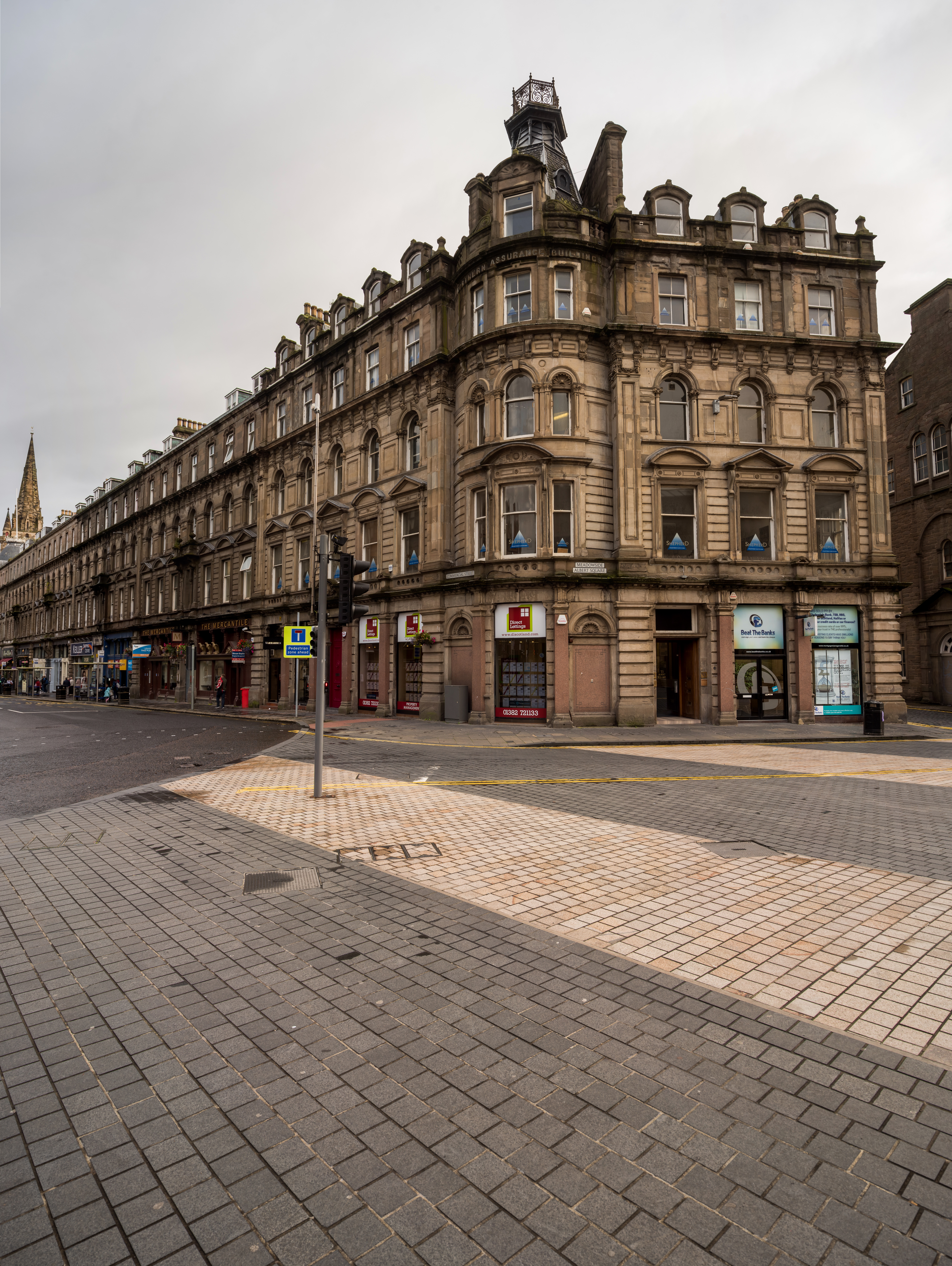 Dundee, Chapel Street, Northern Assurance Buildings Wikidata has entry Q17575457 with data related to this item.